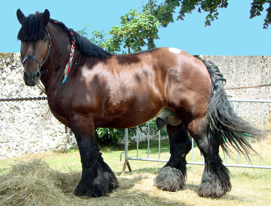 An Ardennais stallion